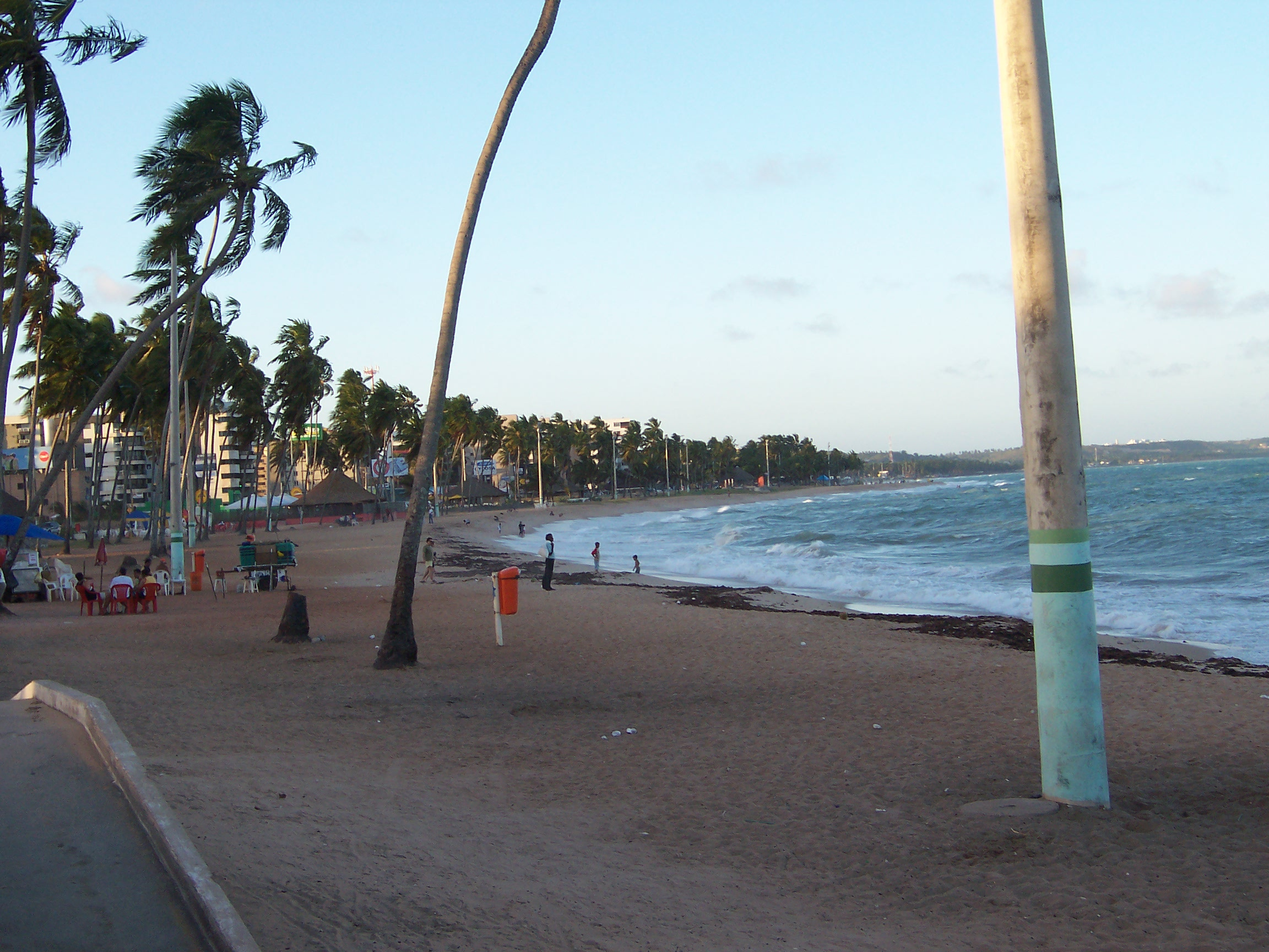 Beach in Maceió, Alagoas, November 2004.